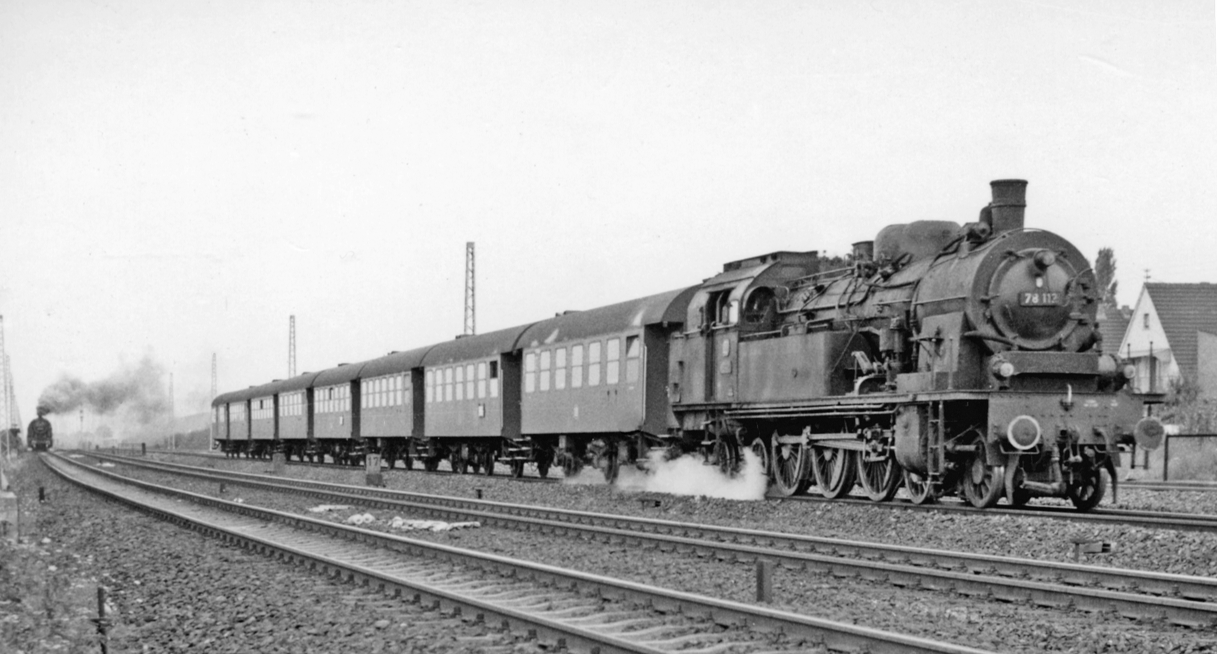 Southbound local train on the Rhine west-bank main line at Spich (Nord Rhein-Westfalen), with a 78 class 4-6-4T, 1961.